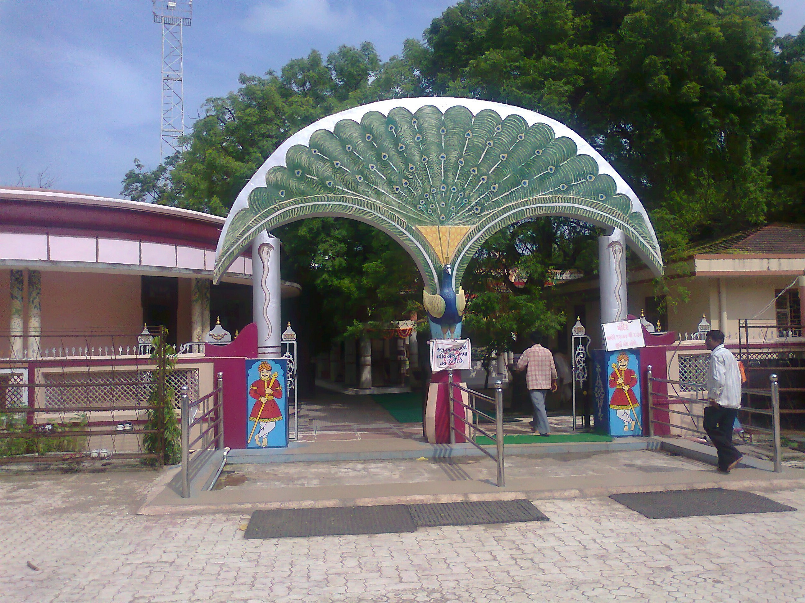 Gate of Rang Avdhoot Ashram at Nareshwar, Gujarat, India